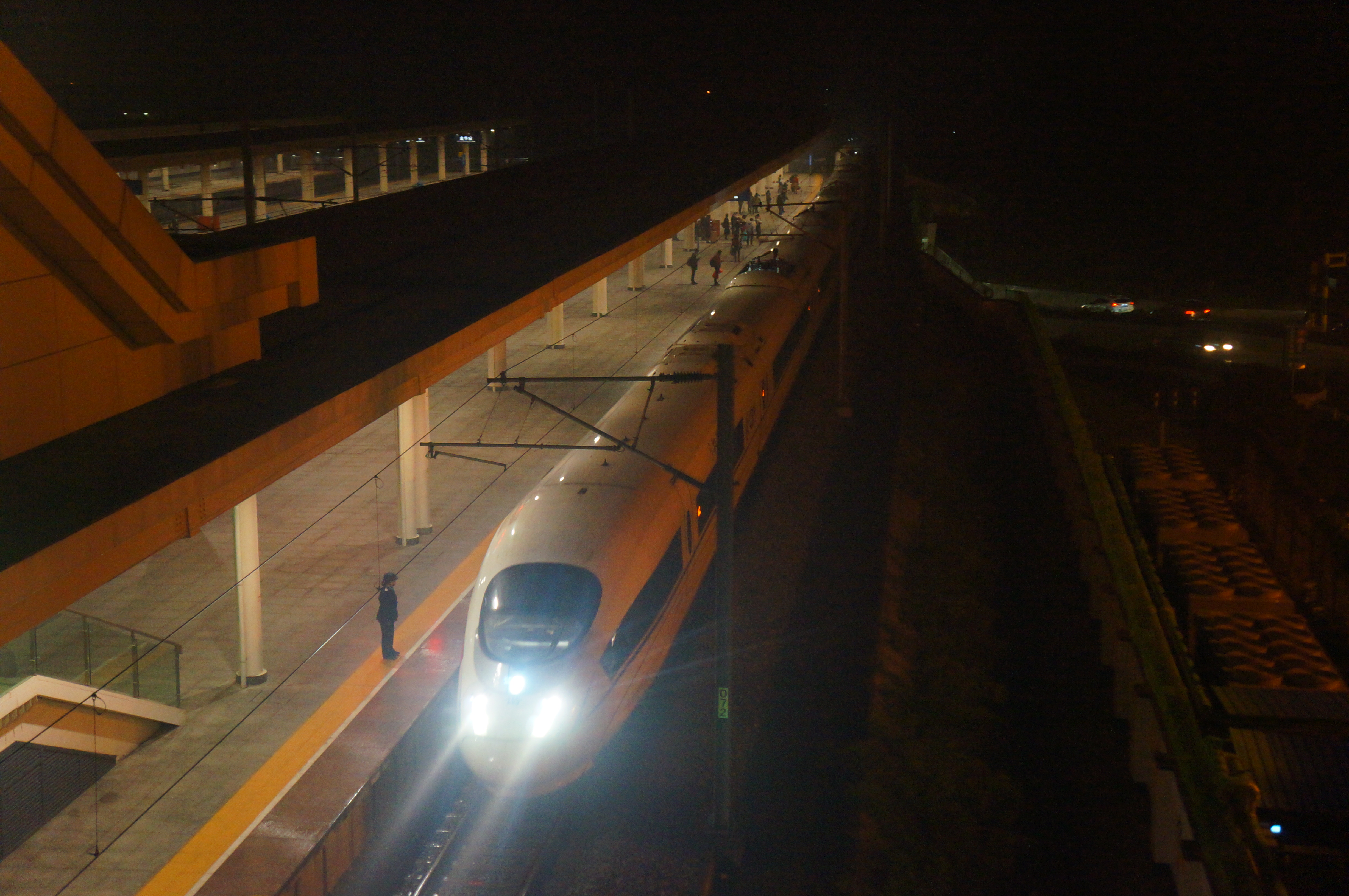 201611 CRH380B operates at G1302 enters into Jinhua Station